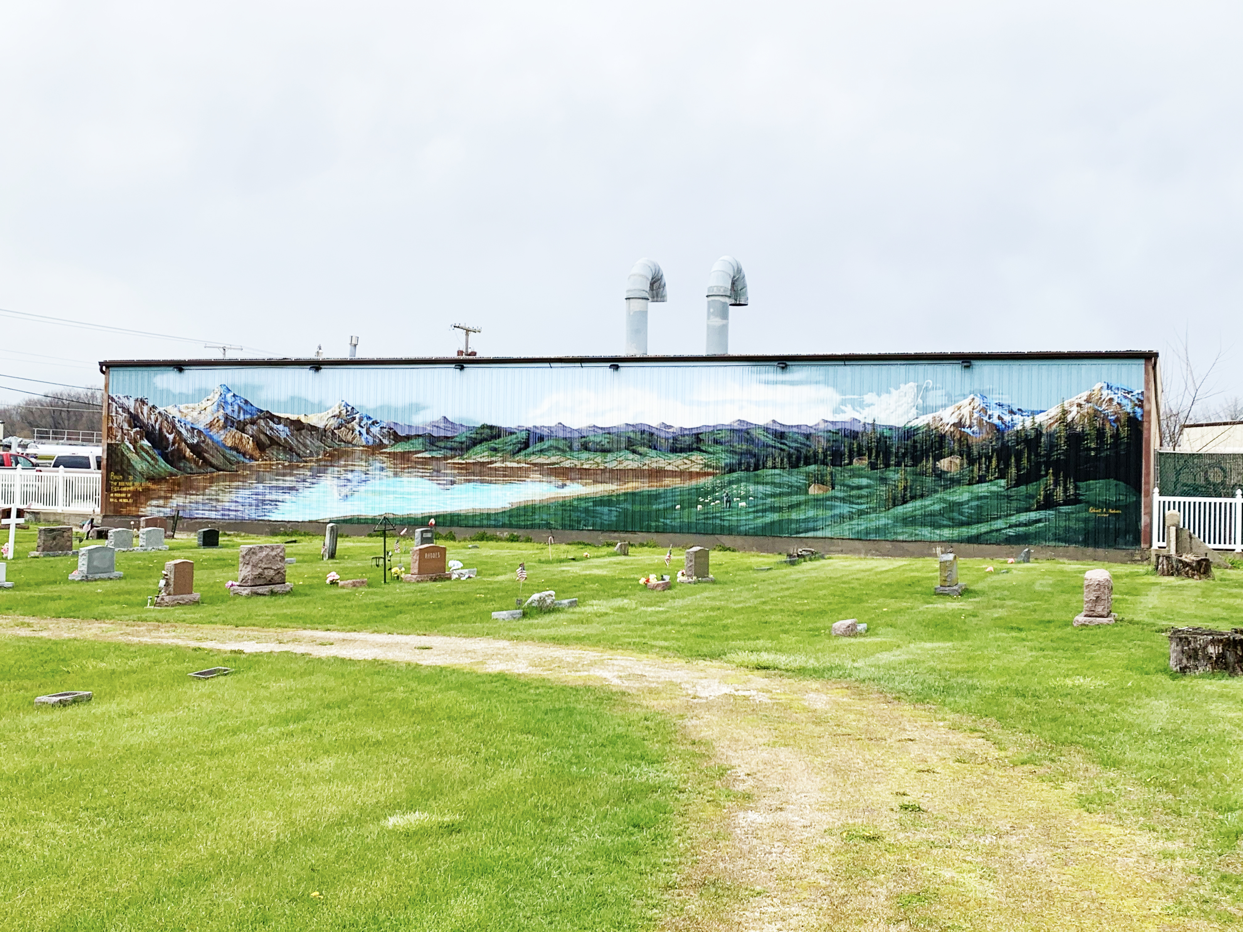 Paul Hensley, Founder of Hensley Fabricating & Equipment Co., Inc. of Tippecanoe, Indiana commissioned what later became know as the "Psalm 23" Mural in 2013. The mural was painted on the South Side of Hensley Fabricating's Paint Shop, which borders the north side of the original Tippecanoe, Indiana Cemetery.